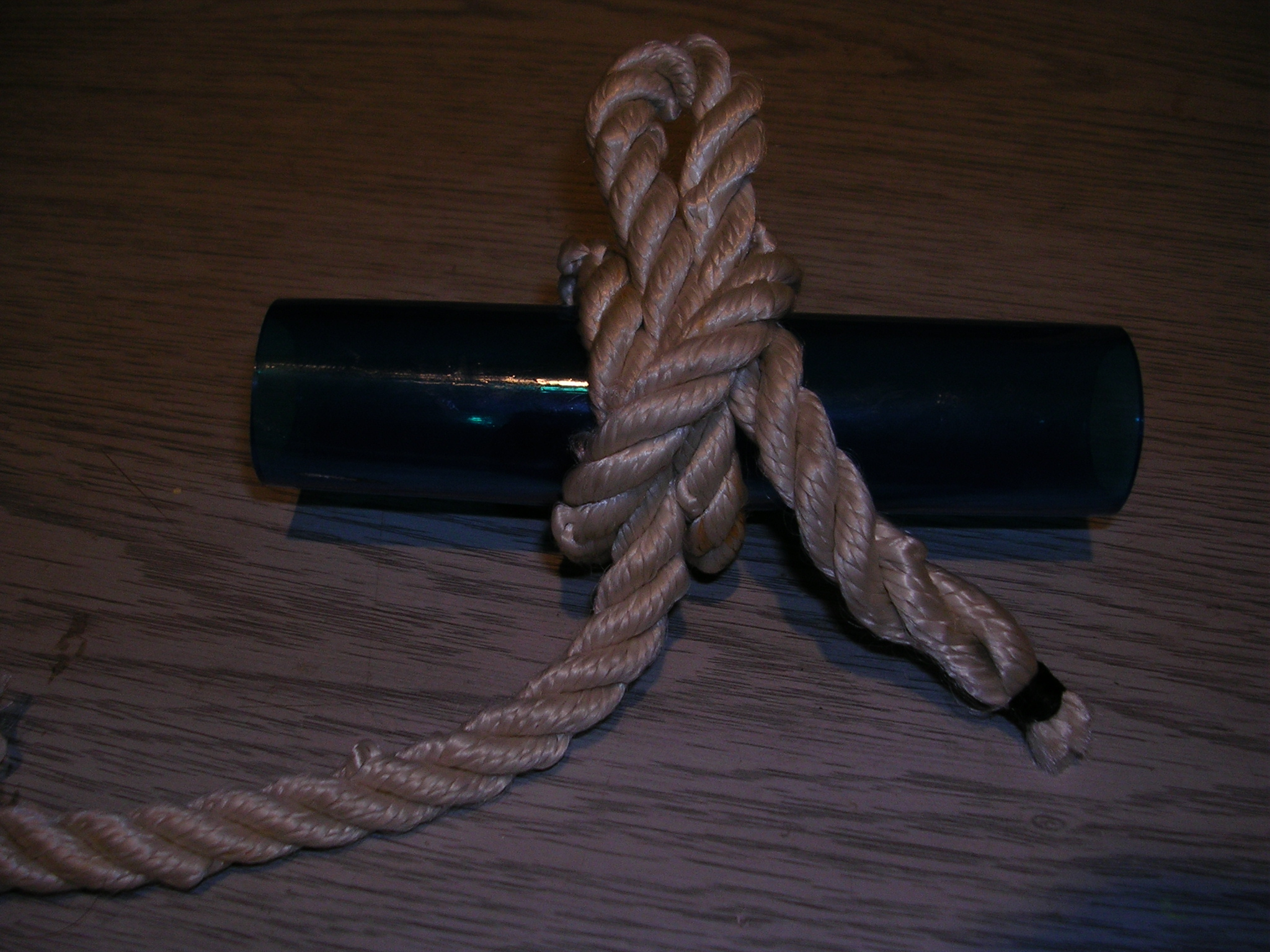 A slippery hitch (= a slipped clove hitch) Photo by Pete Verdon, public domain.